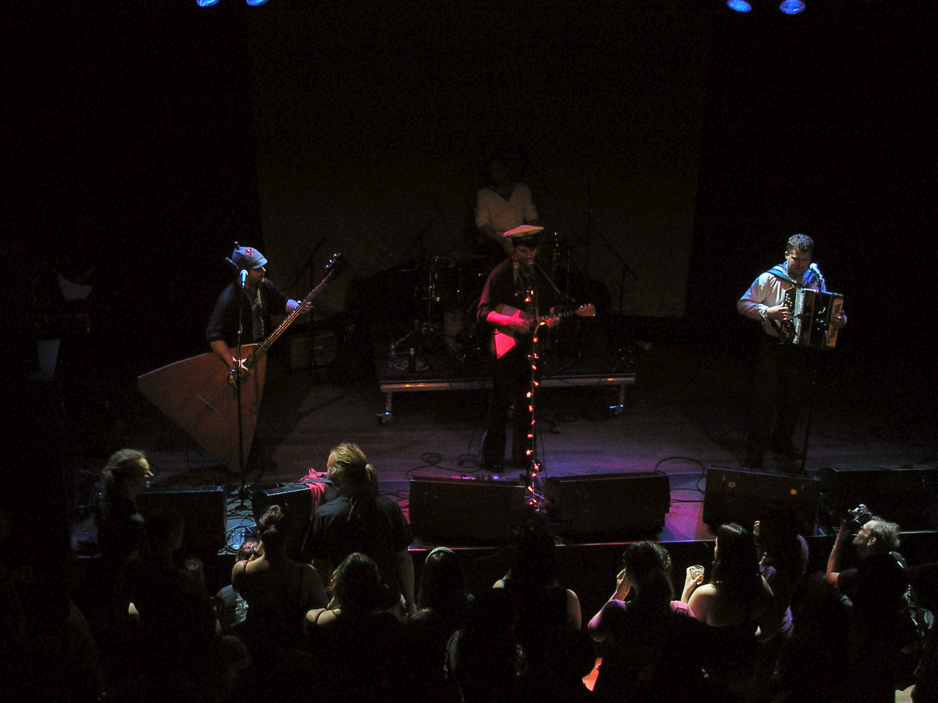 Apparatschik German-Russian "VolXmusik" band from Berlin at a performance on a small festival in Enschede (Netherlands) - Atak-podium in the (new) building of the "Nationaal Muziekkwartier".Left to right: Viktor Skalá (Contrabass-Balalaika), Oljég Matrosov (Balalaika), Juri Bajan (Accordion). Background: Fedia Filipovich (Drums).